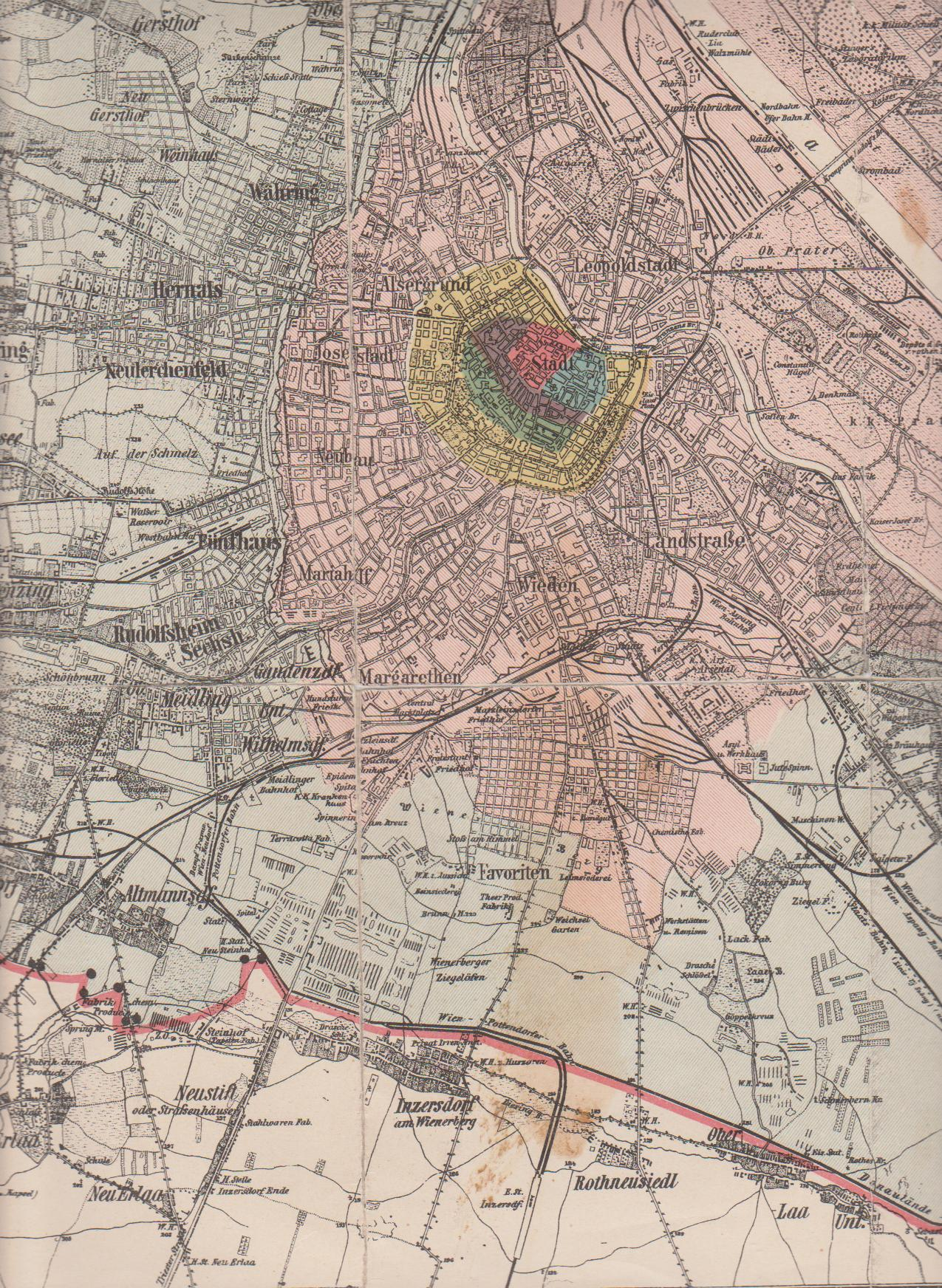 Part of a map showing the development of the City of Vienna from the Middle Ages till 1892, when the districts 11 to 19 were created by incorporating suburbs. Gürtelstrasse to be seen as well as the Linienwall fortification (to be pulled down from 1894). Published by the Municipality of Vienna.